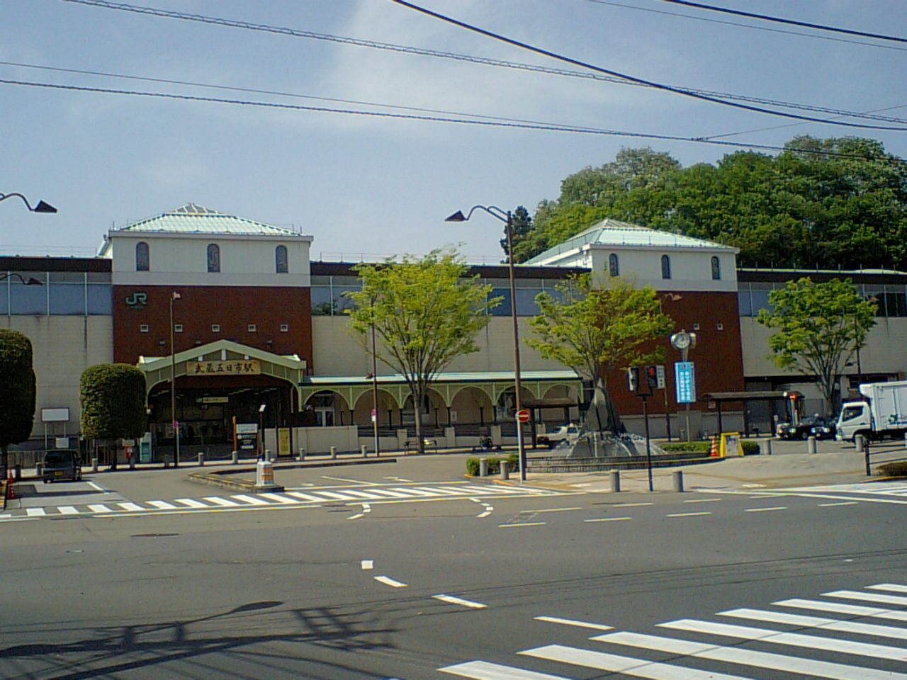 Musashi-Itsukaichi Station building in Akiruno City, Tokyo, Japan